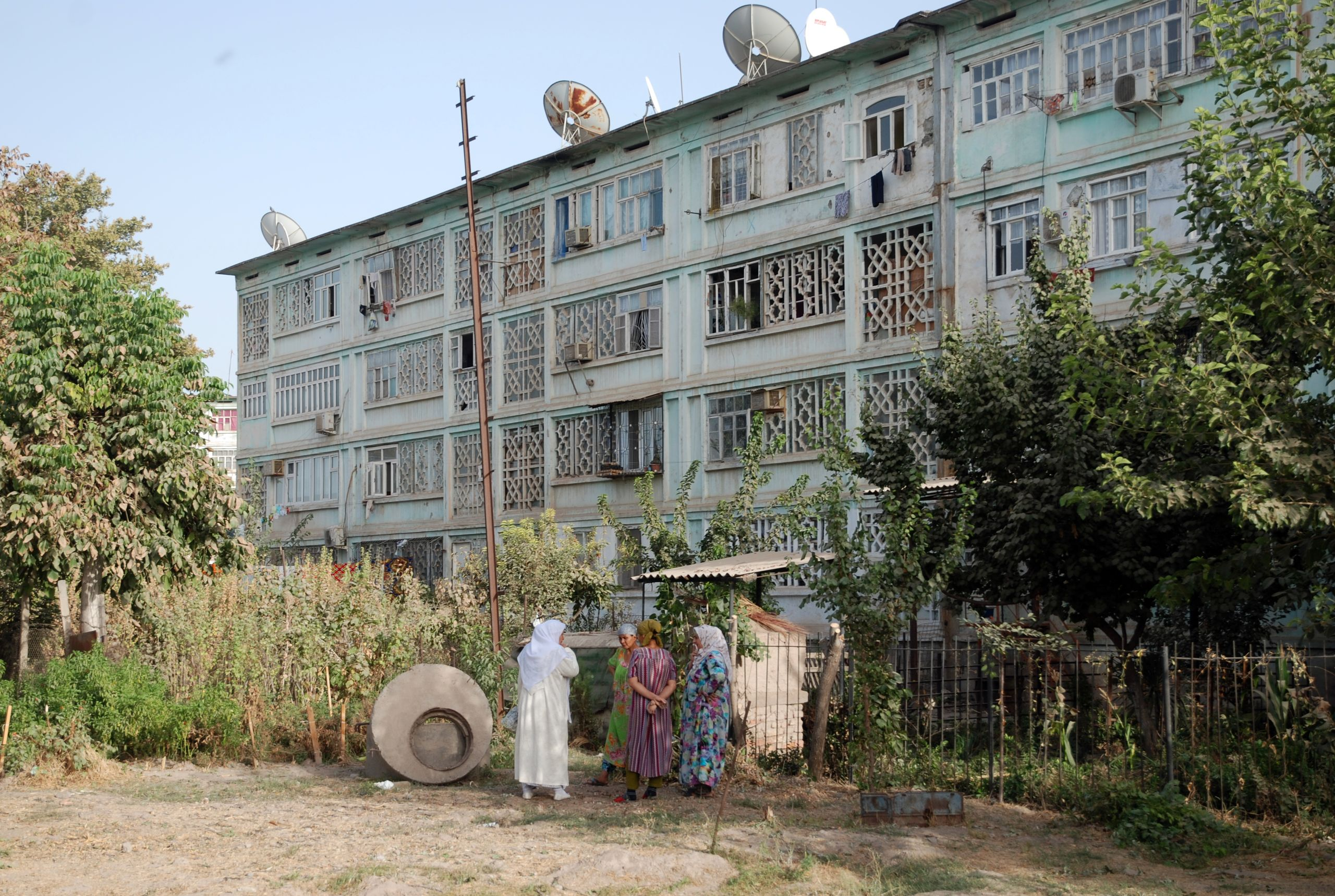 Qurghonteppa, ring road north